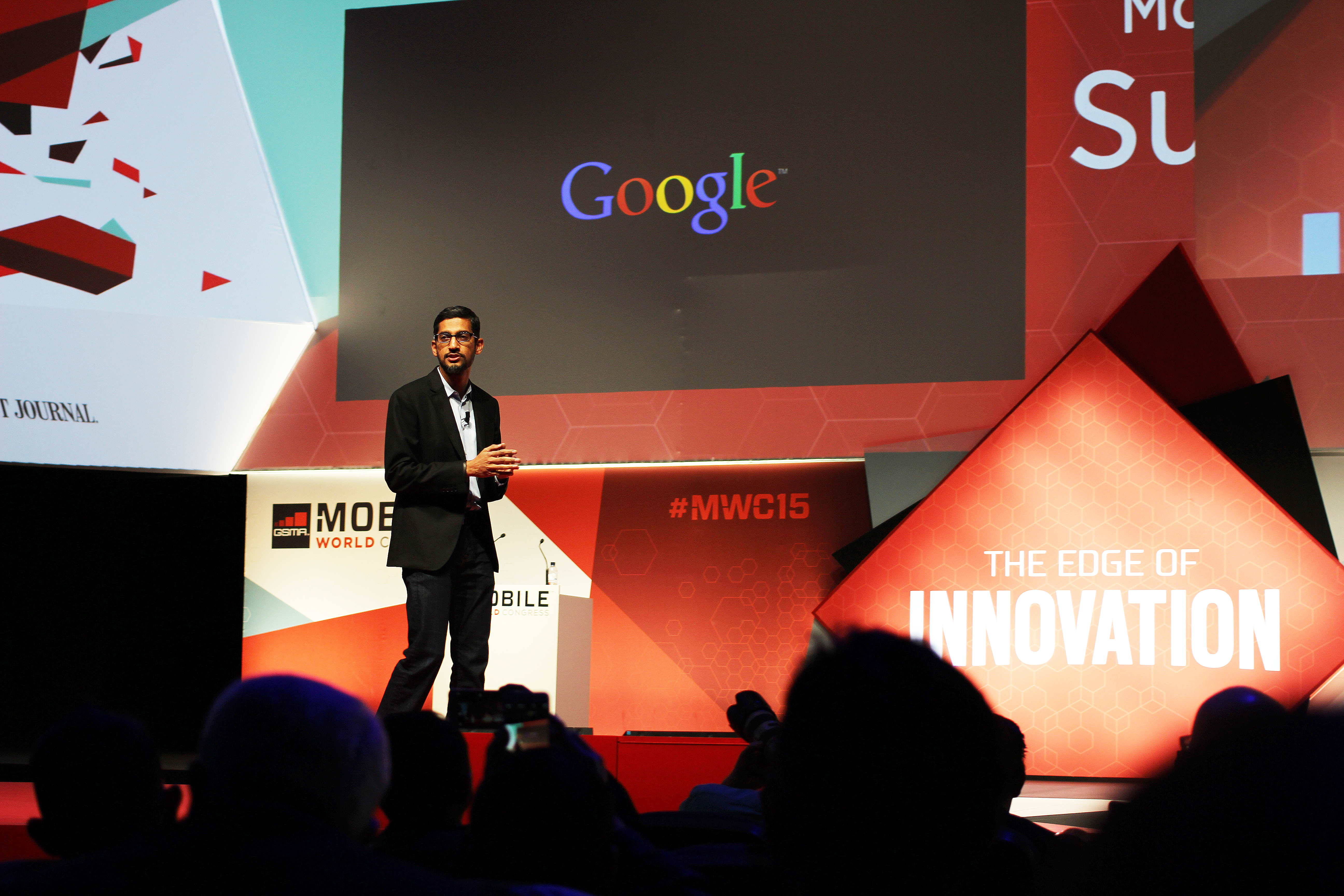 Sundar Pichai